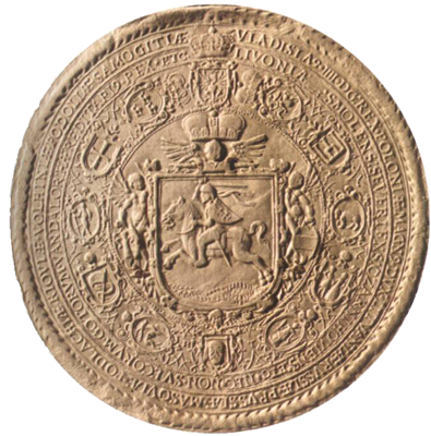 Pahonia in great seal of Lithuania with Ducal cap above.